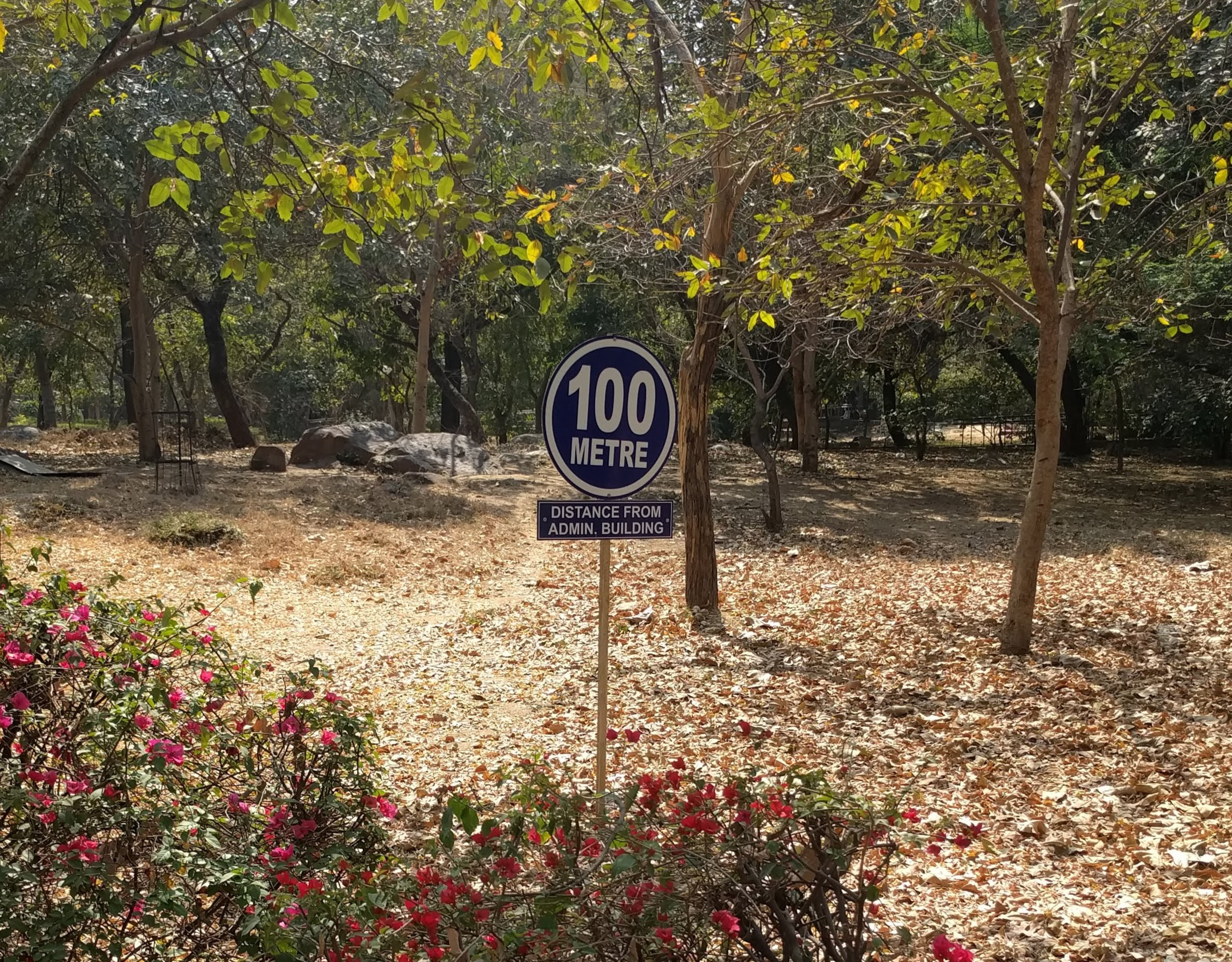 A sign near the Jawaharlal Nehru University (JNU) administrative building after the Delhi High Court on 8 August 2018 said that students cannot hold protests within a 100-metre periphery of the university’s administrative block.